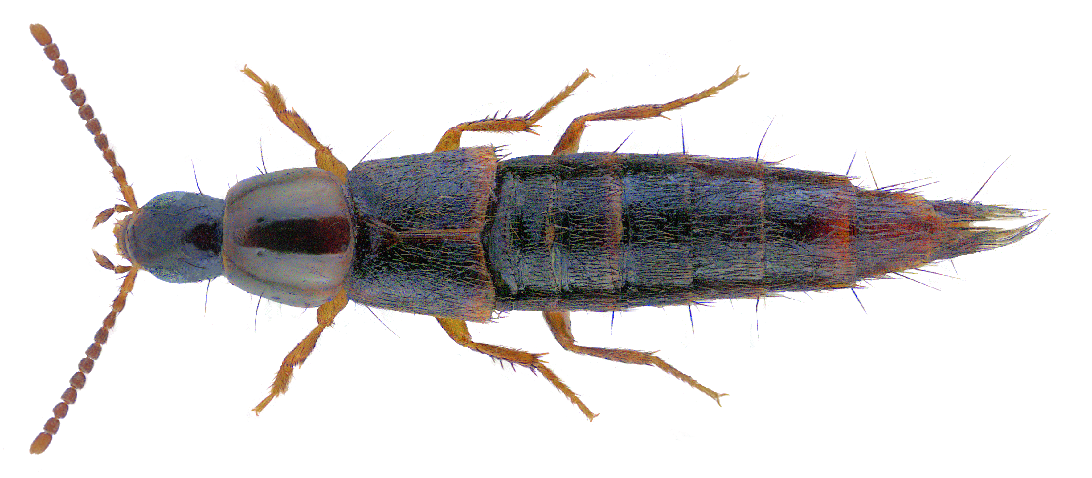 Family: Staphylinidae Size: 4.5 mm (3.8 to 4.5 mm) Origin: palaearctic Ecology: Eurytop in wetlands, of rotten plants Location: Germany, Saxonia, Plauen, Pirk, Weiße Elster valley leg.det. U.Schmidt, 20.IX.2005 Photo: U.Schmidt, 2017